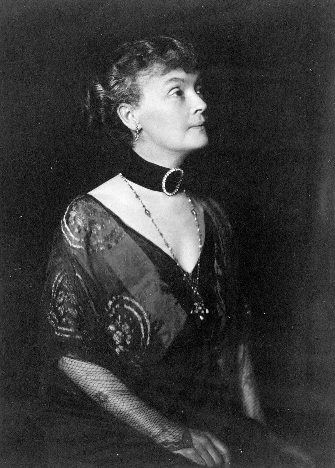 Portrait of Annie Burnell Beauchamp, circa 1914. Photograph taken by Elizabeth Greenwood.